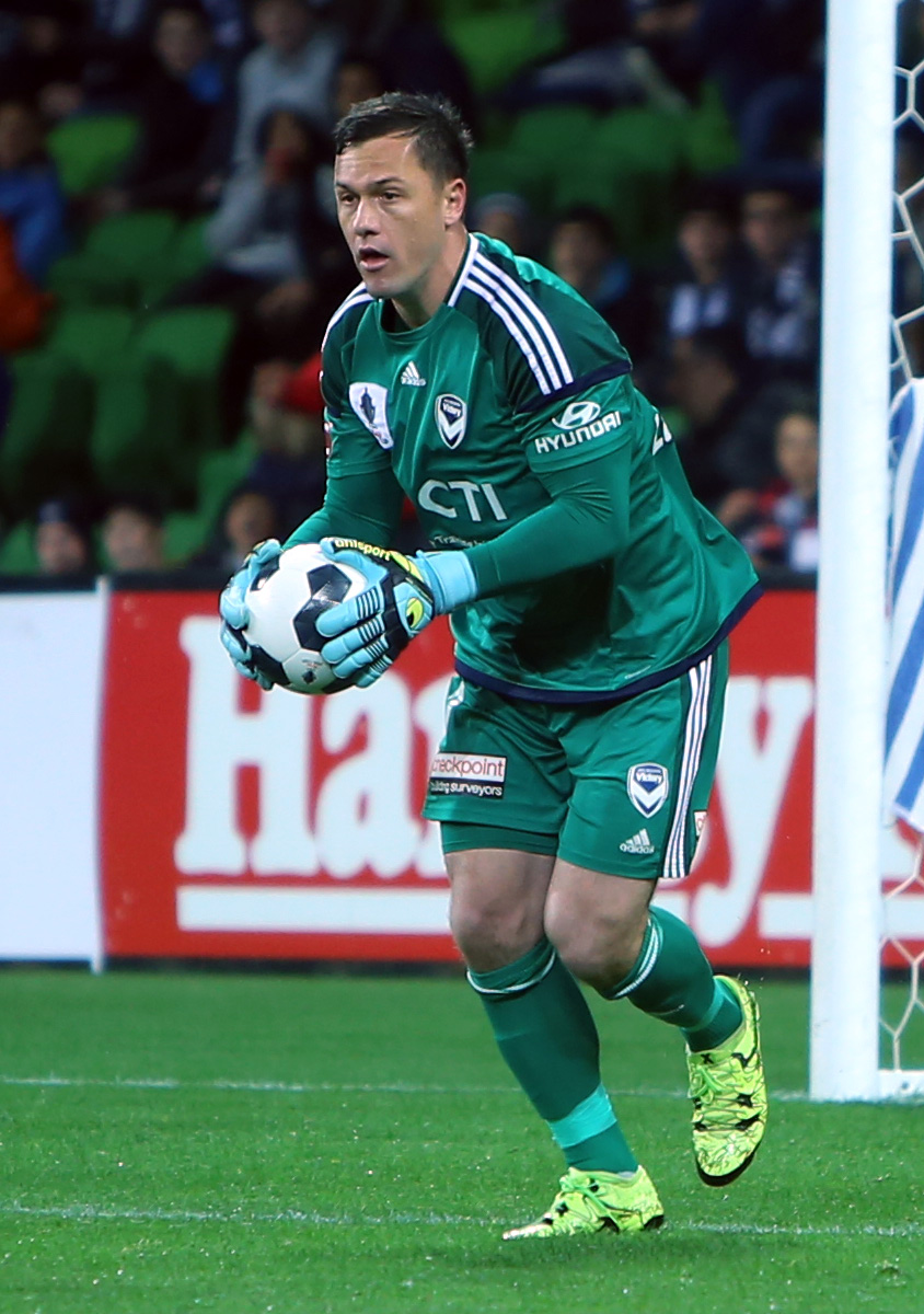 Danny Vukovic playing for Melbourne Victory against Adelaide United in the FFA Cup, September 2015